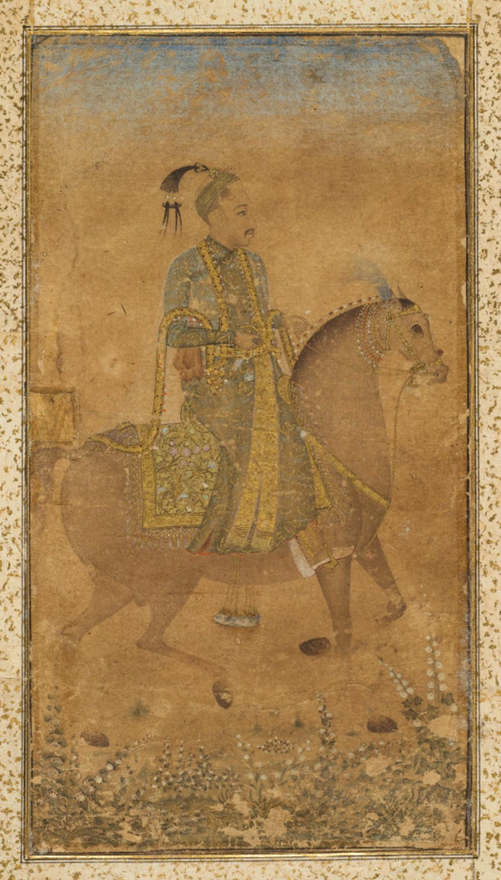 Sultan Abdullah Qutb Shah of Golkonda on Horseback. In this watercolor portrait, executed with subdued colors that complement the gold accents, the young Sultan wears a diaphanous shawl over his richly embroidered robe. His horse is almost as lavishly dressed in decorative trappings and jewels as his rider.